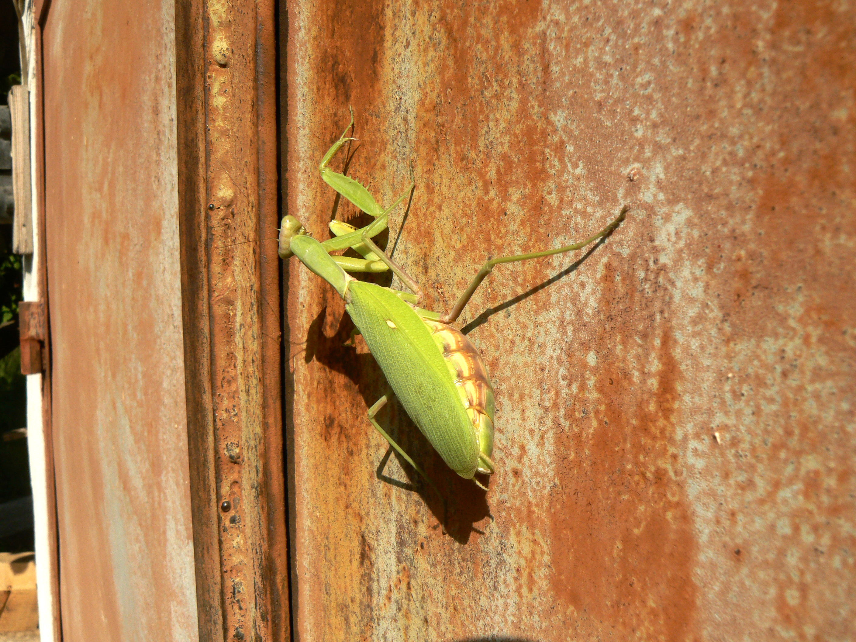 Mantis religiosa